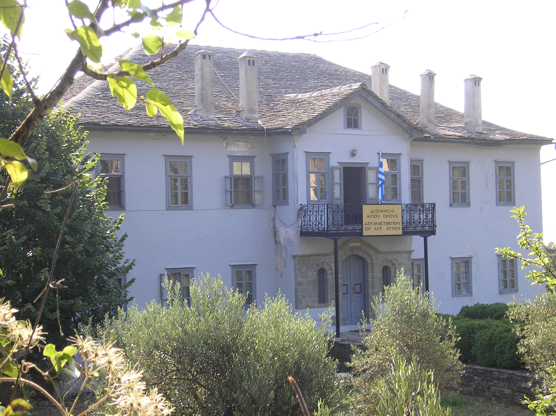 Photo of the building that houses the secular administration of the monastic state of Mount Athos at Karyes (Athos), Greece. Photo taken by Thodoris Lakiotis in August 2006. Posted under GFDL with his permission.